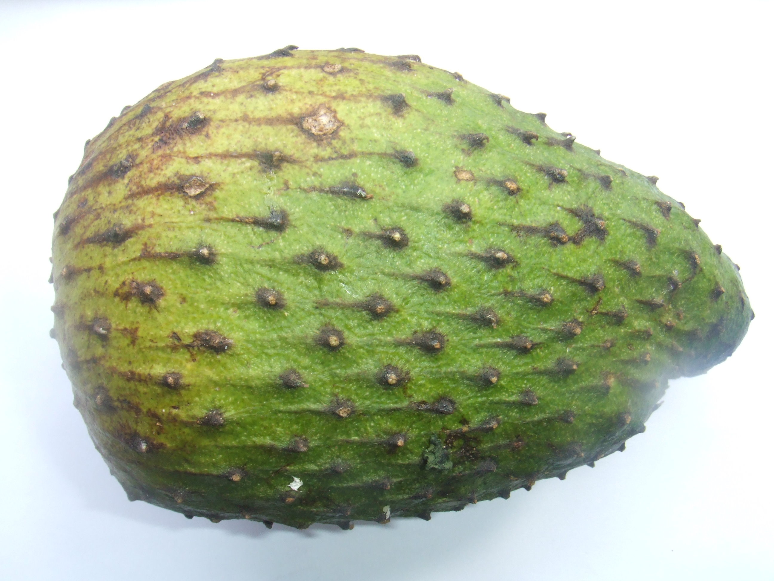 Annona muricata, bought at the Binnenrotte market in Rotterdam, The Netherlands